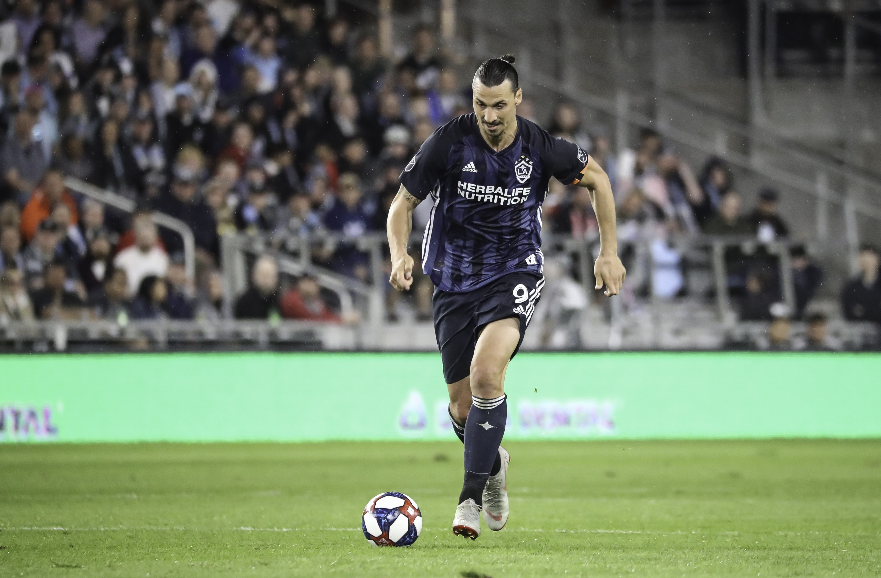 Zlatan Ibrahimovic - LA Galaxy - MLS Soccer - v Minnesota United MNUFC - Allianz Field, St. Paul Minnesota